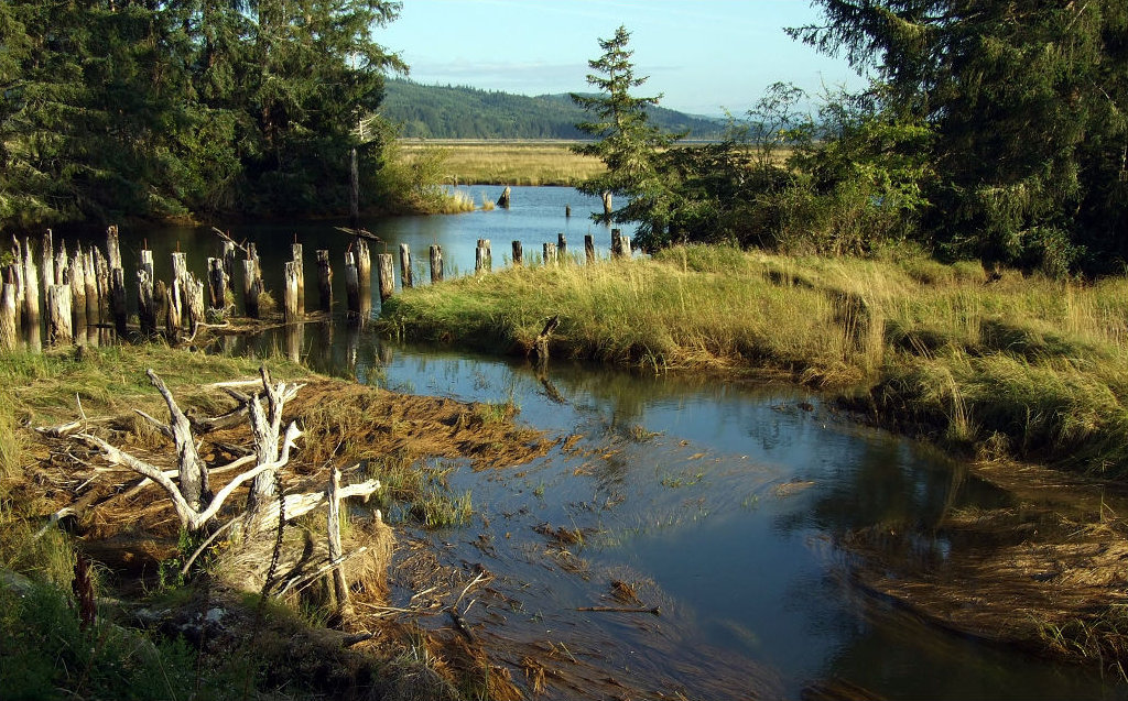 Willapa Bay and Hills is the coastal range south of the Olympic Park.